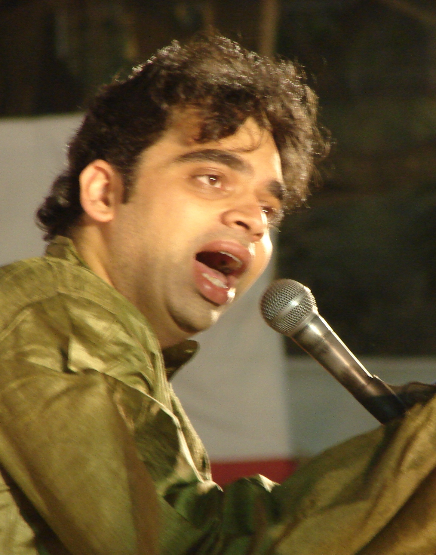 Rahul Deshpande - Singing in Pune in March 2011